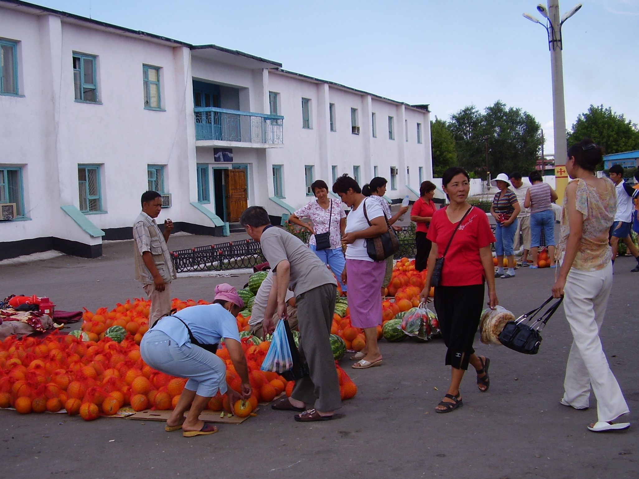 Sale of melons on platform railway station of the city of Shu, Zhambyl Province of Kazakhstan.